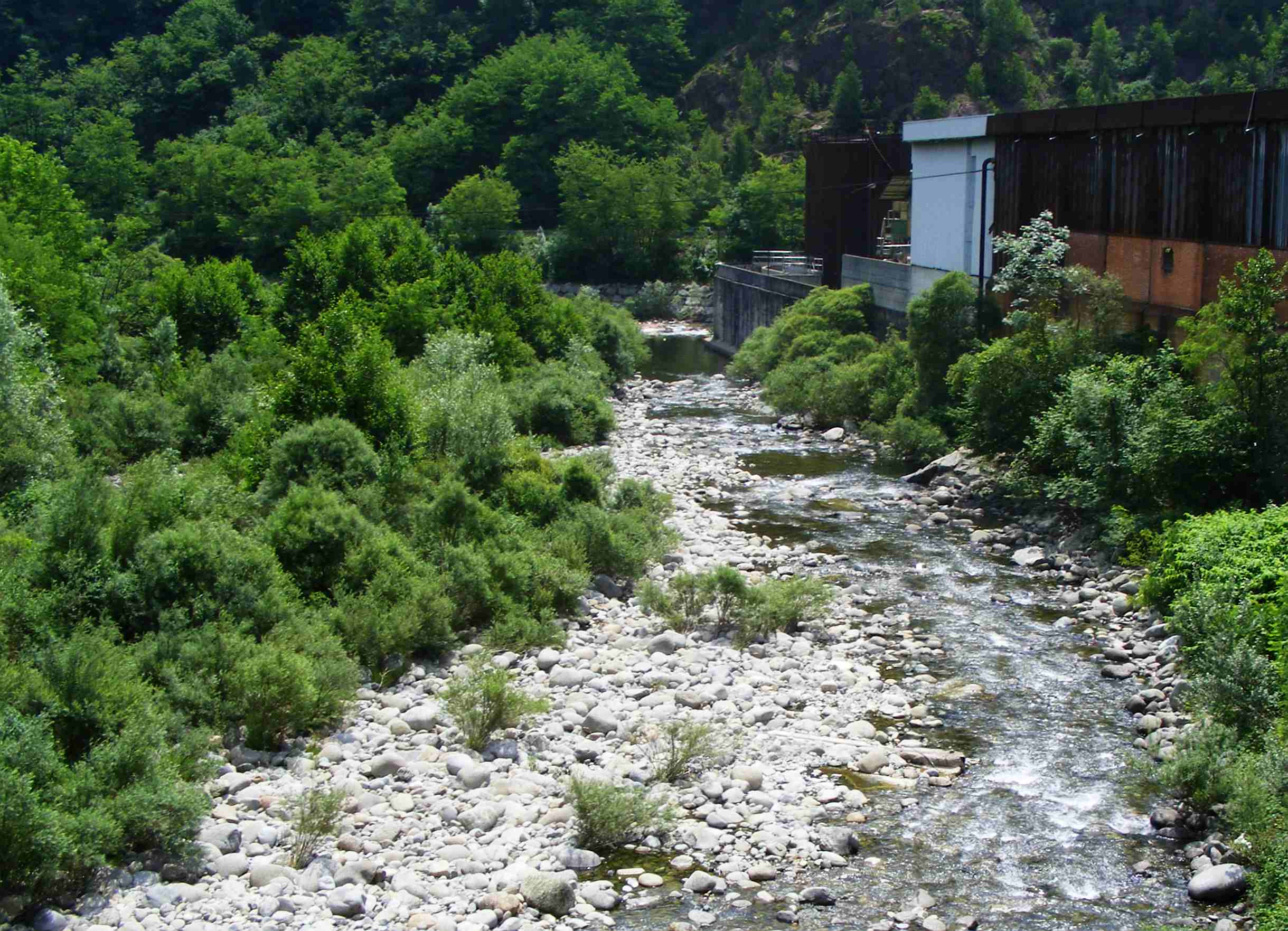 Strona di Postua creek near its confluence in the Sessera (BI,VC - Italy)